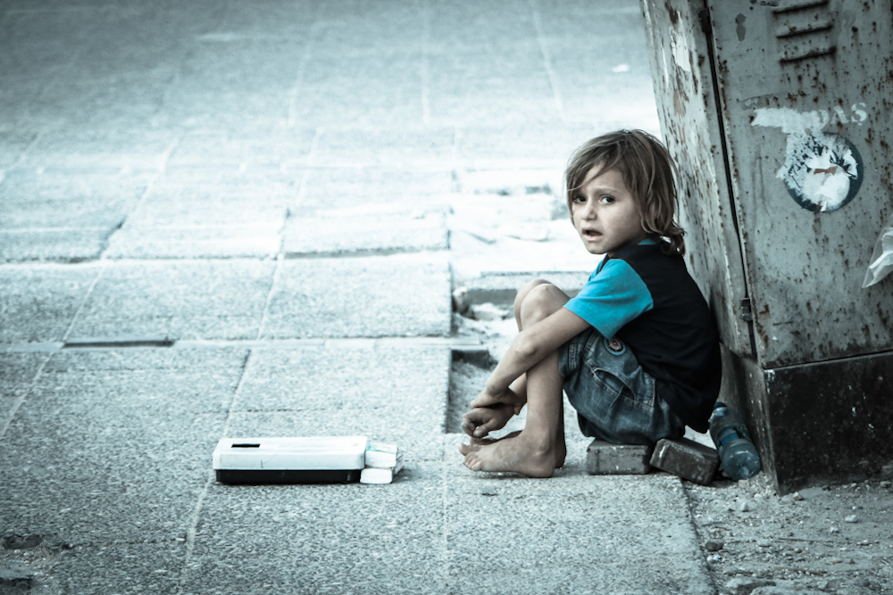 Syrian Refugee photography work by Bengin Ahmad